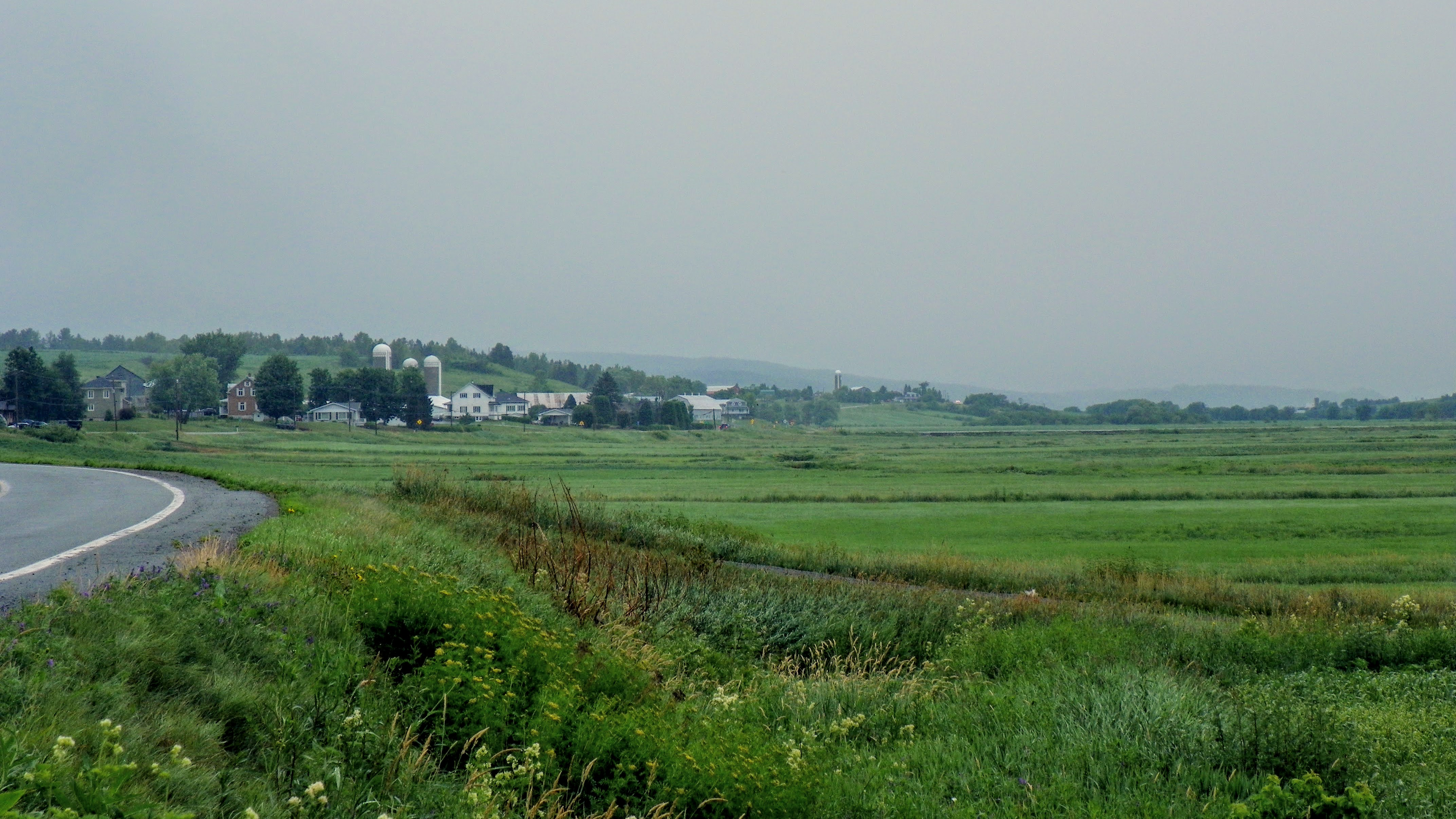 Chaudière Valley in Saint-Joseph-des-Érables, Québec.